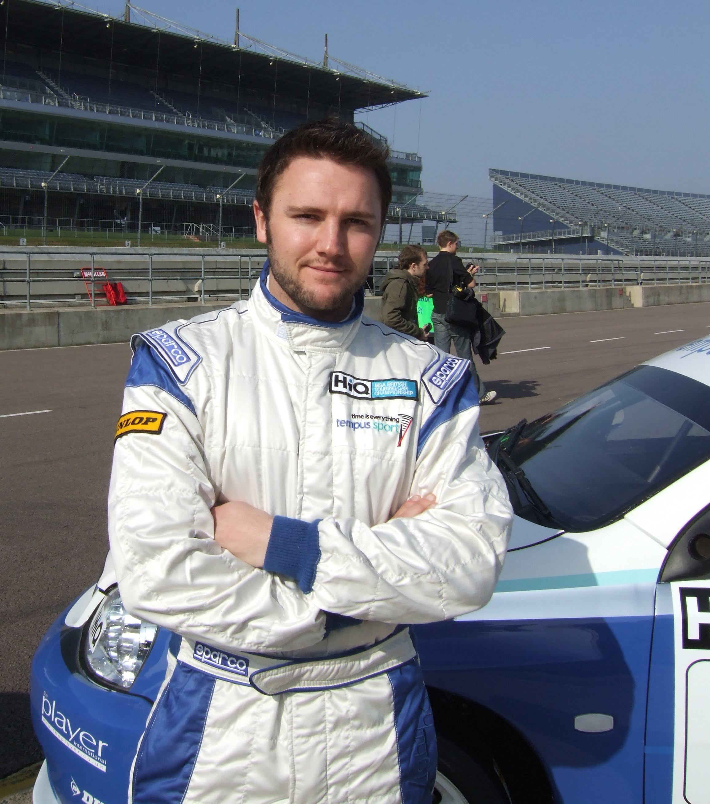 Harry Vaulkhard|: This image was taken at the BTCC Media Day on Thursday 19 March 2009, held at Rockingham Speedway in Corby, Northamptonshire.